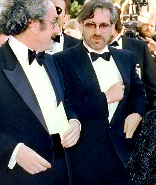 Steven Spielberg on the red carpet at the 62nd Annual Academy Awards, 3/26/90